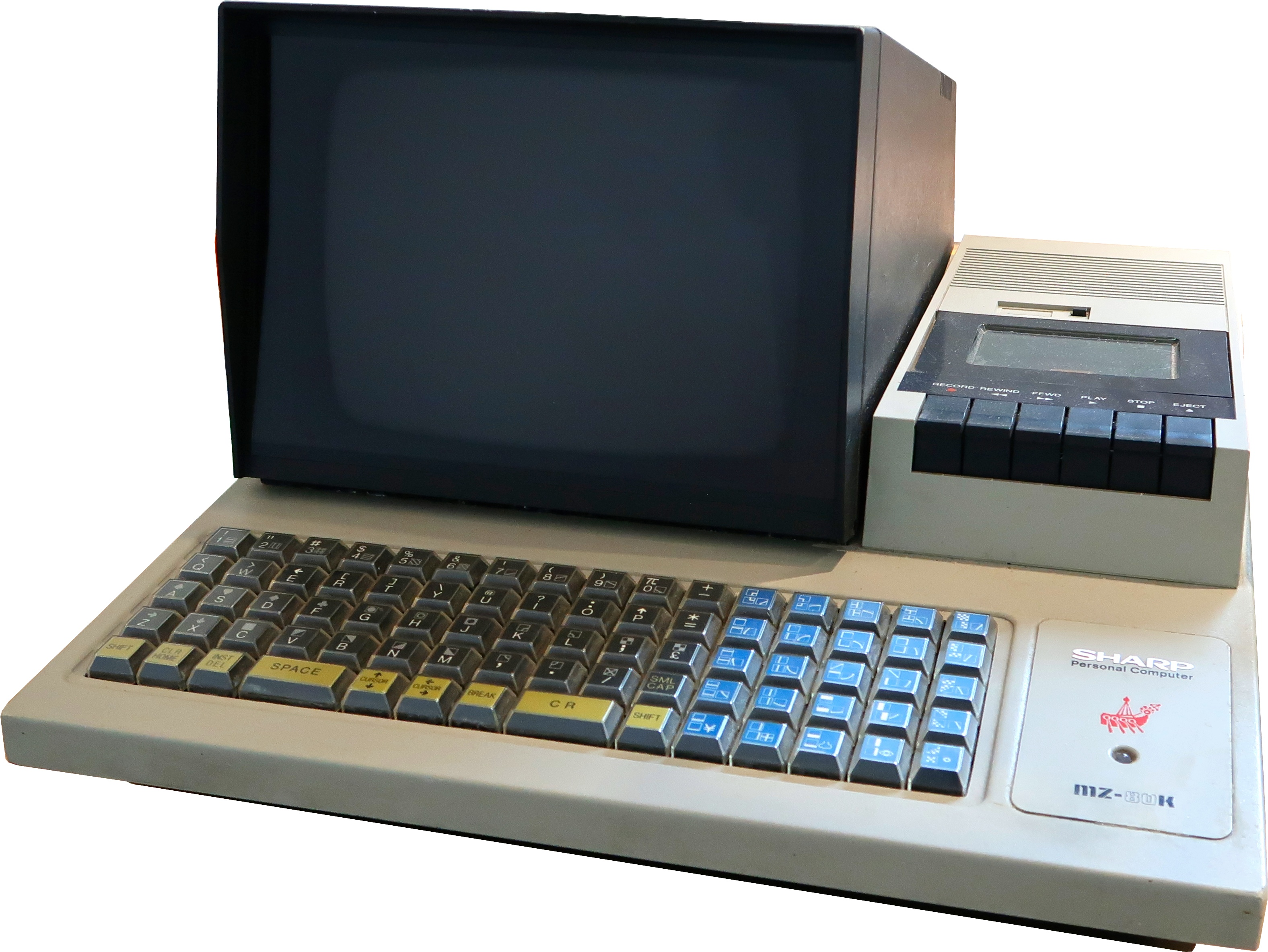 Sharp MZ-80K computer, launched in 1979. This 8-bit microcomputer was popular in the early 1980s and was followed by various improved versions.